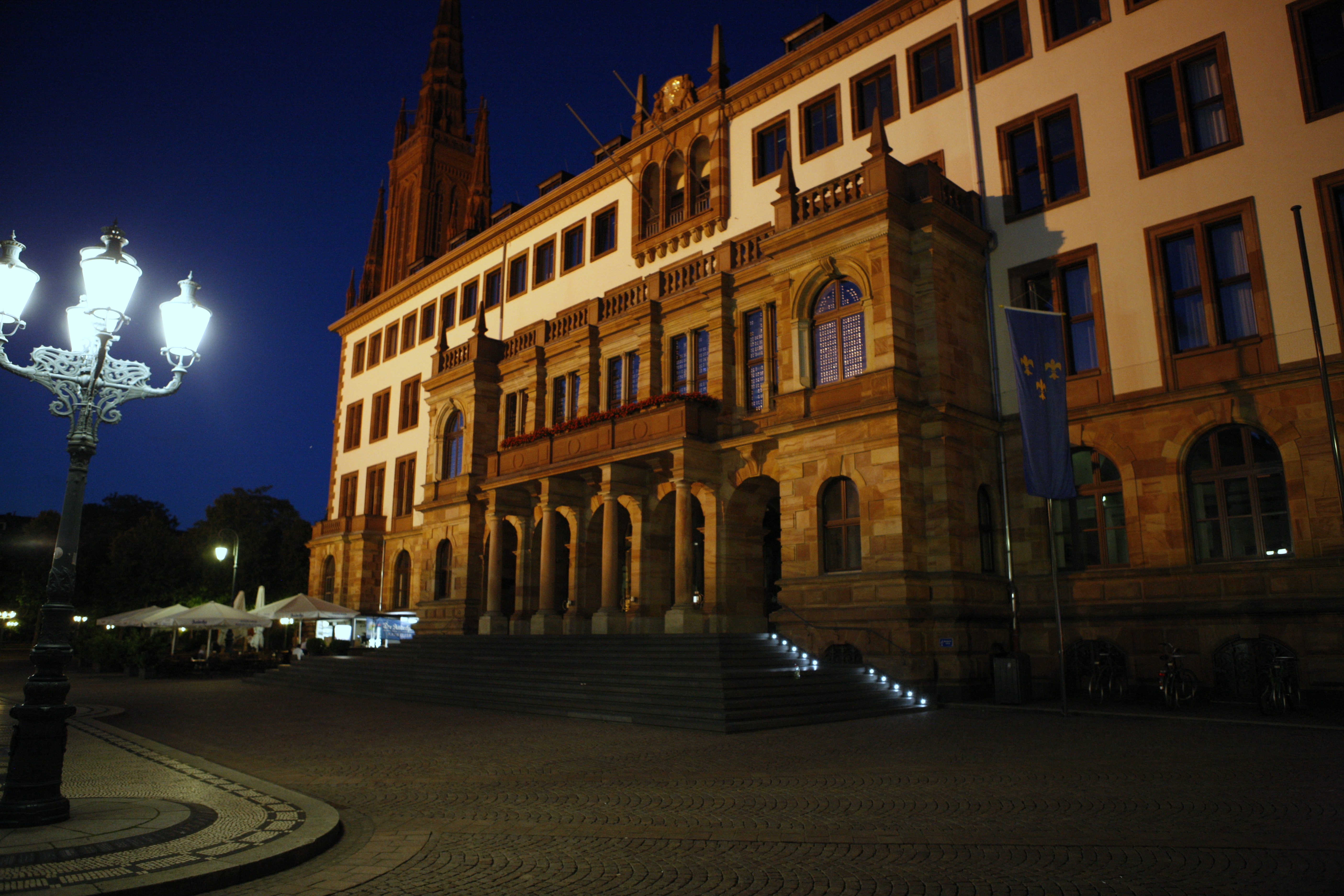 Town hall of Wiesbaden in 2013